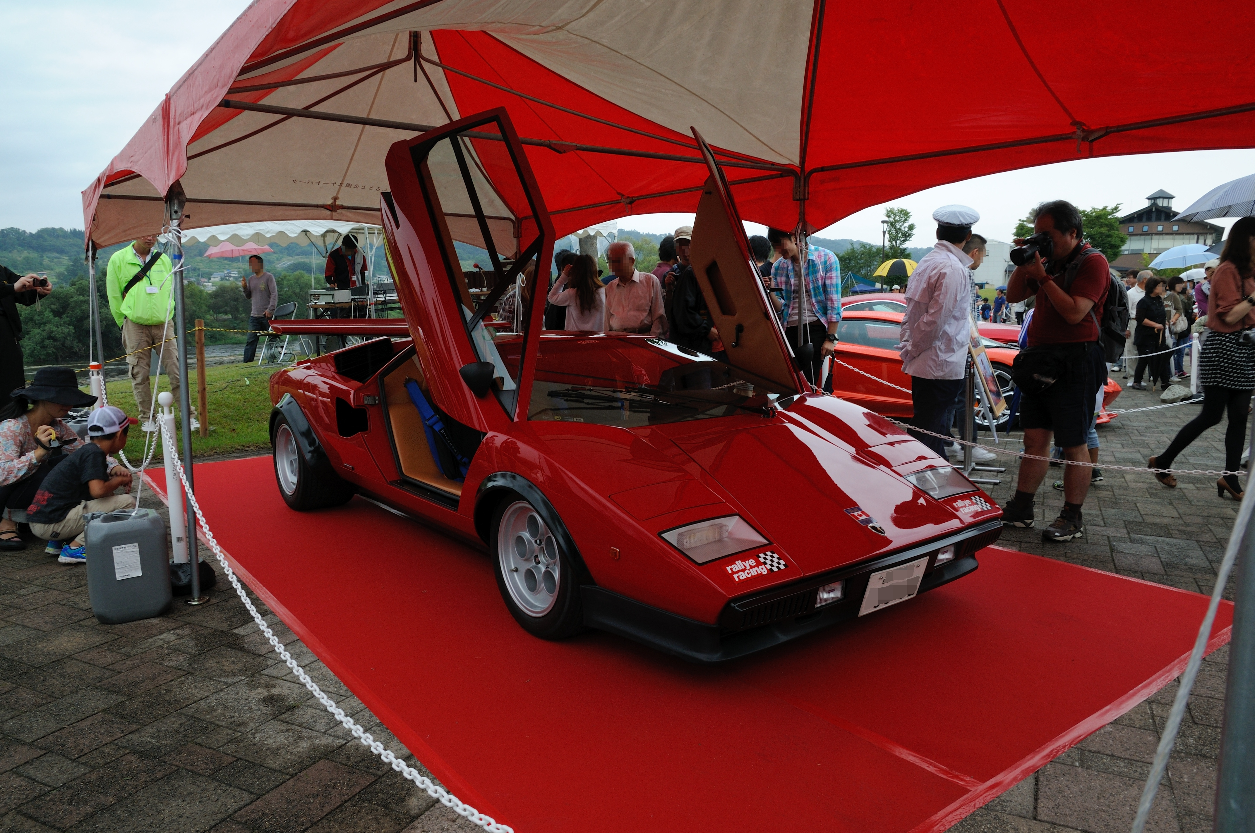 Lamborghini WOLF Countach